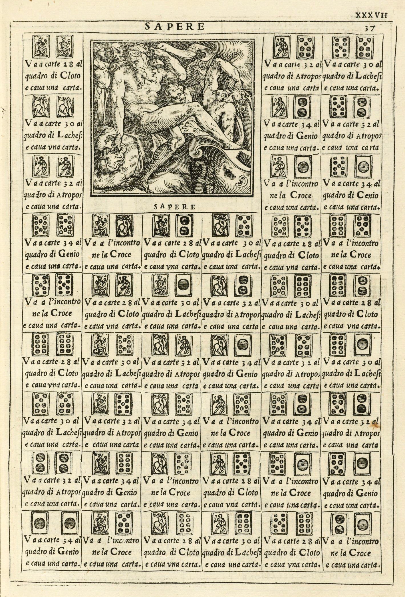 A fortune-telling manual, giving the meanings of various combinations of trappola cards. From Le sorti di Francesco Marcolino … intitolate Giardino di pensieri, 1540, by Francesco Marcolini (c. 1500 - c. 1559). Typ 525.40.558, Houghton Library, Harvard University